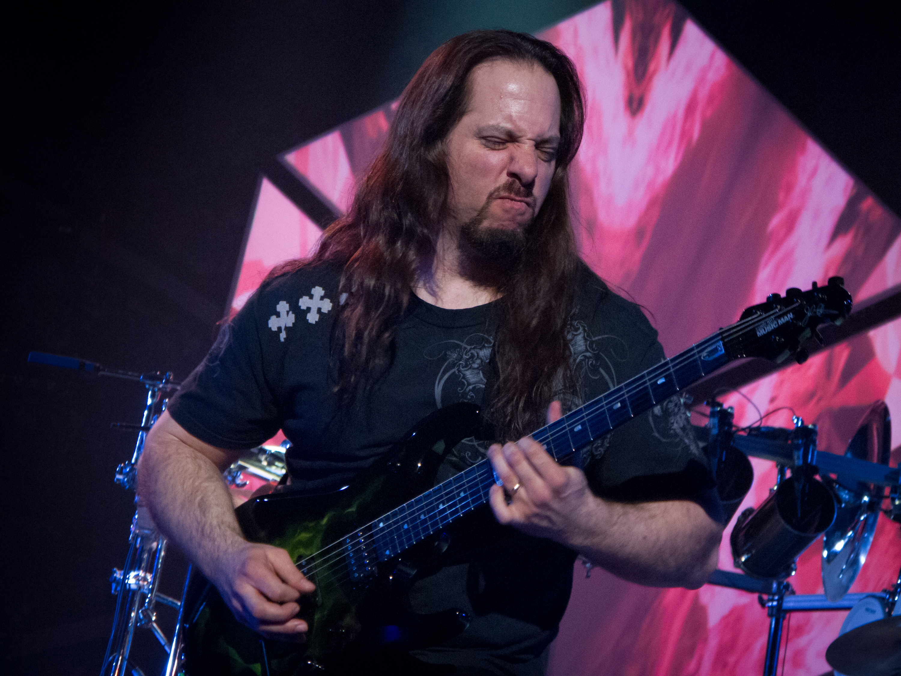 John Petrucci in concert with Dream Theater in 2012.